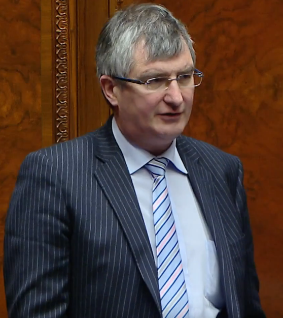 Tom Elliott asking a question in the NI Assembly